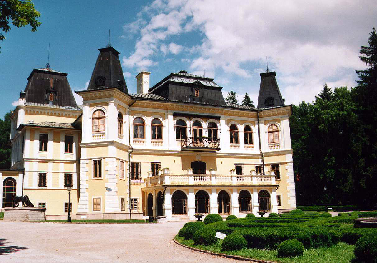 Slovakia, Betliar Castle, 1998